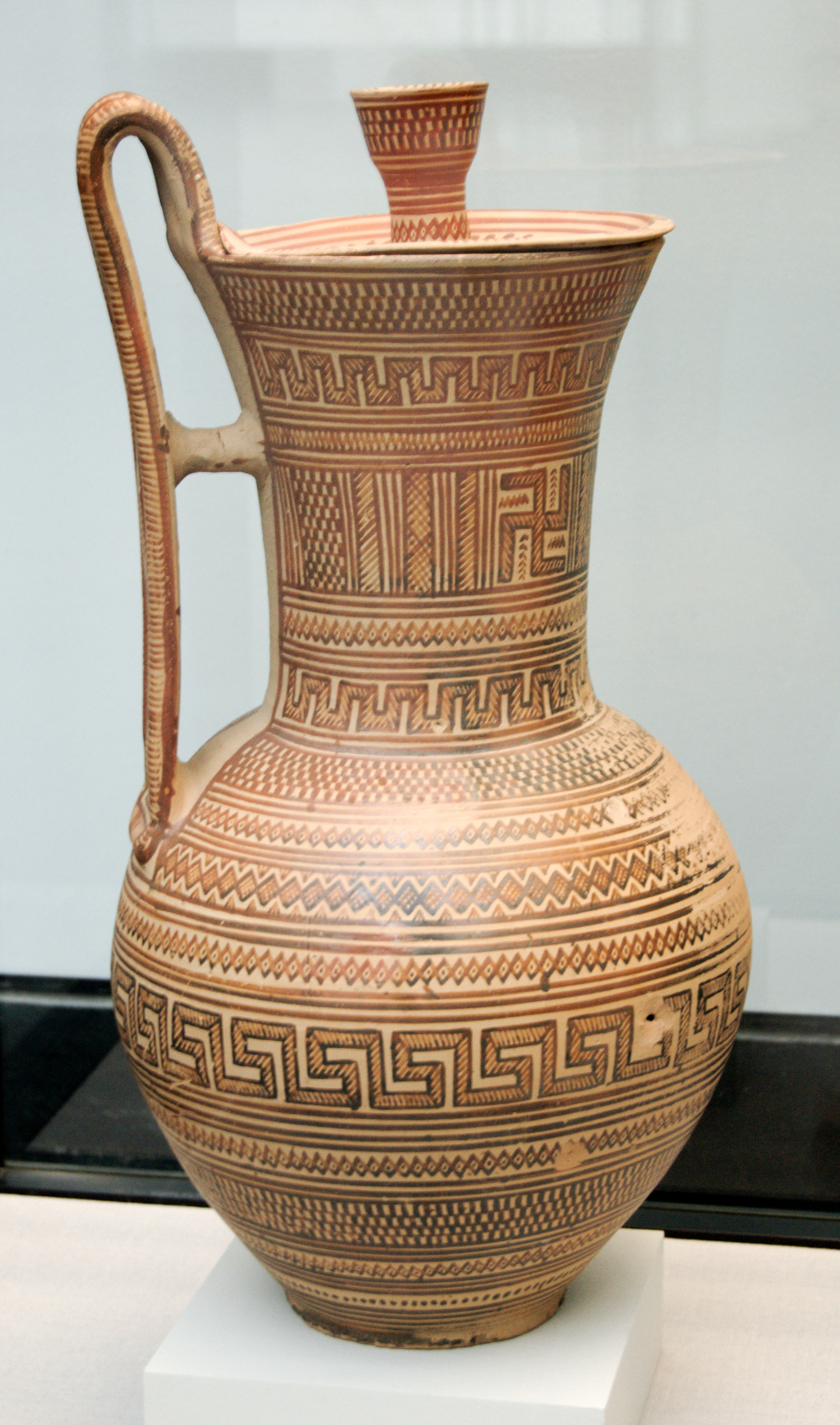 Attic jug, ca. 740 BC. Late Geometric style: the whole vase is covered with ornamentation friezes (“carpet style”?).